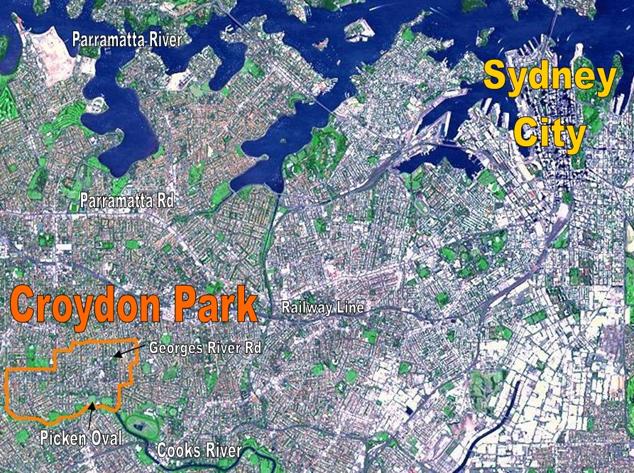 Location Map for the suburb of Croydon Park, NSW based on NASA satellite map. Modified to identify suburb boundaries and identifiable landmarks. Original NASA image number: PIA03498